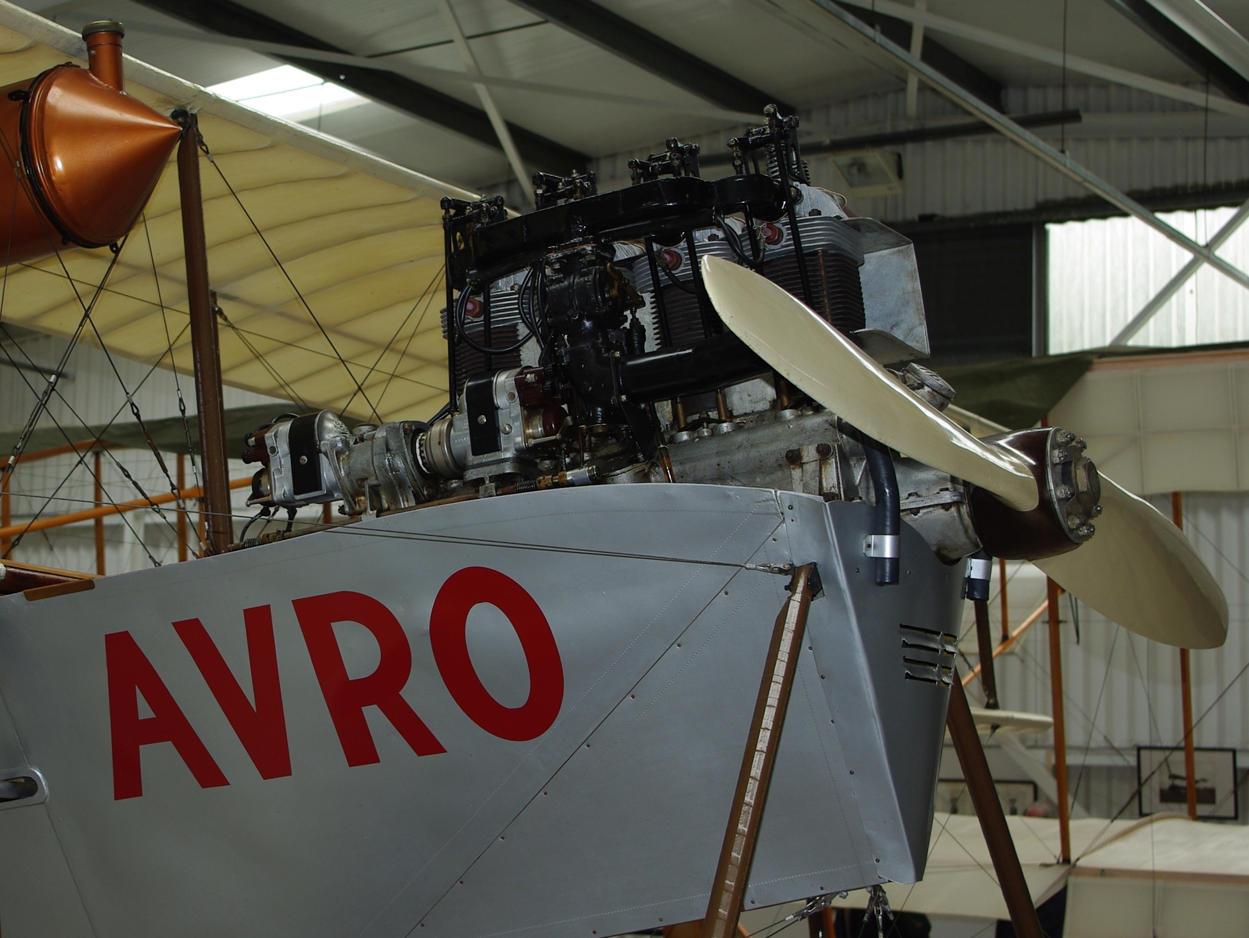 Cirrus Hermes I engine in Roe IV replica, Shuttleworth collection